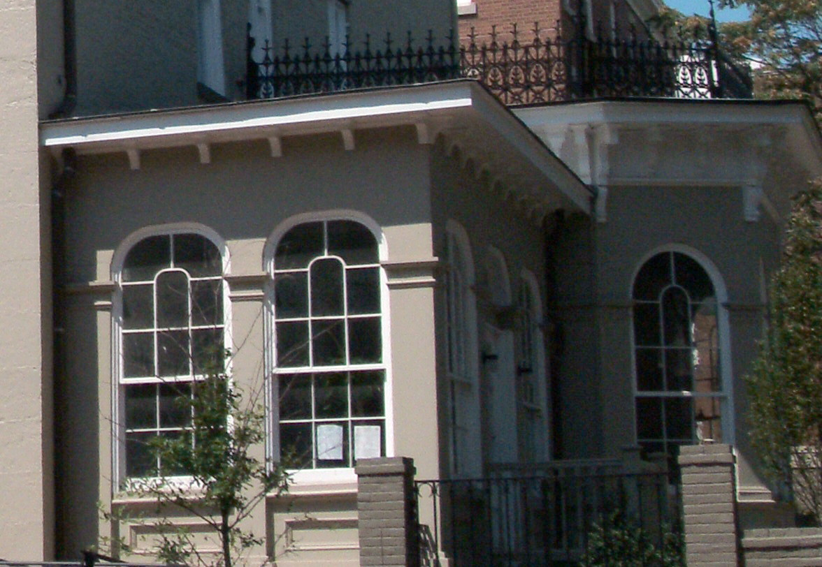 Bayne-Fowle House, Alexandria, Virginia.